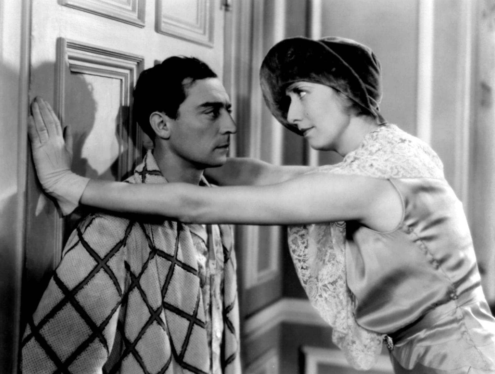 Charlotte Greenwood & Buster Keaton in Parlor Bedroom and Bath - cropped screenshot